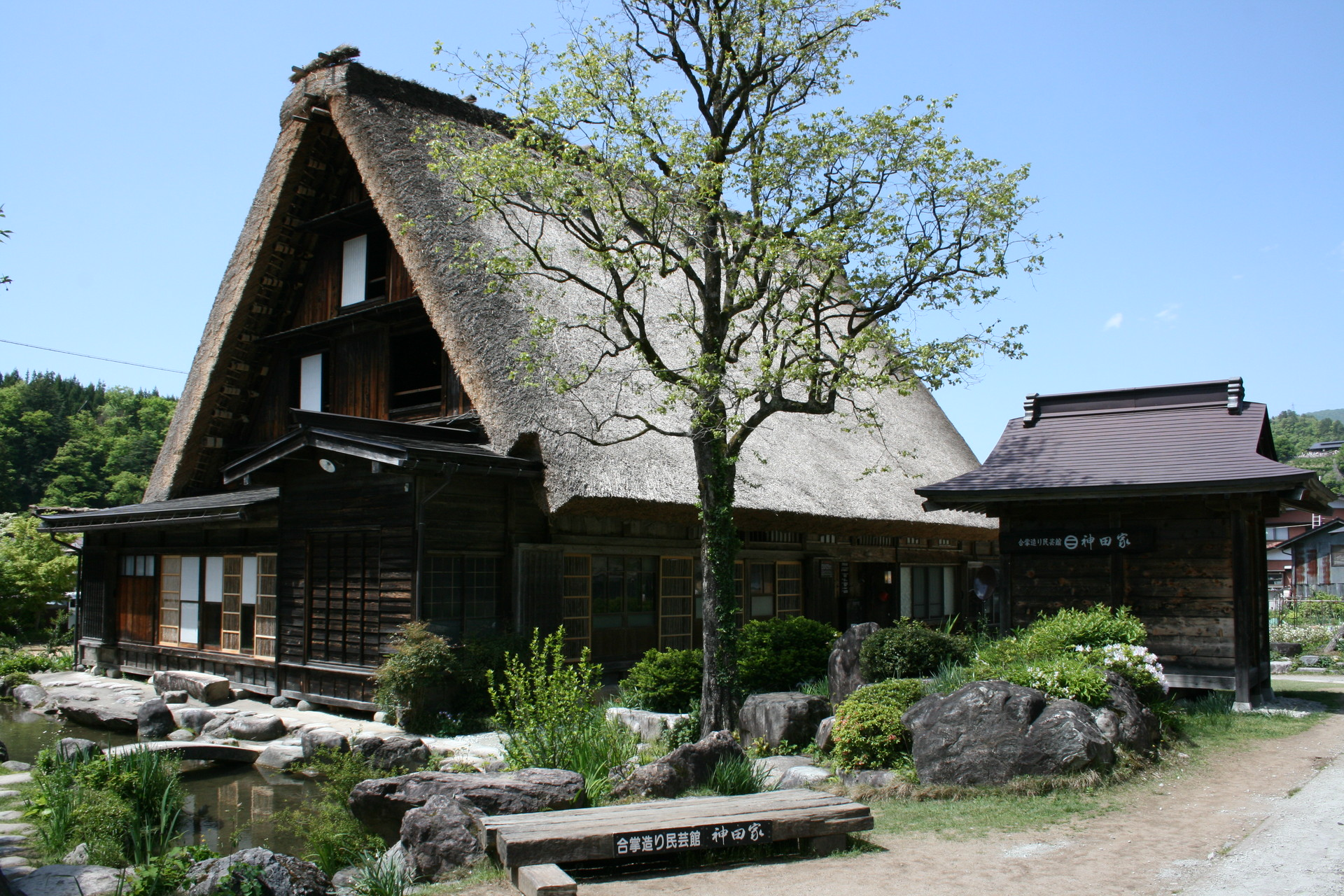 Kandake of Shirakawa-go